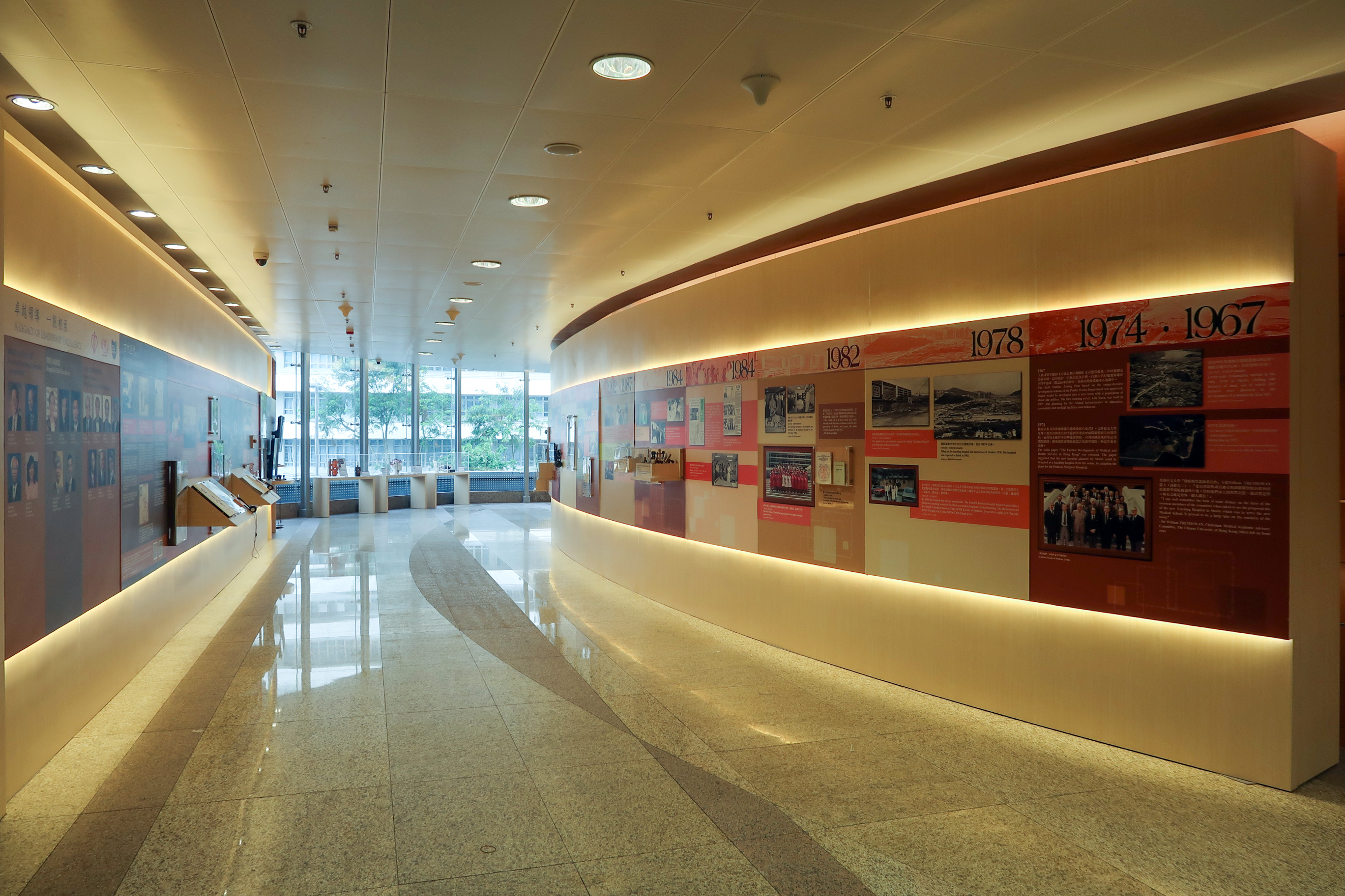 Main Clinical Block and Trauma Centre Historical Gallery